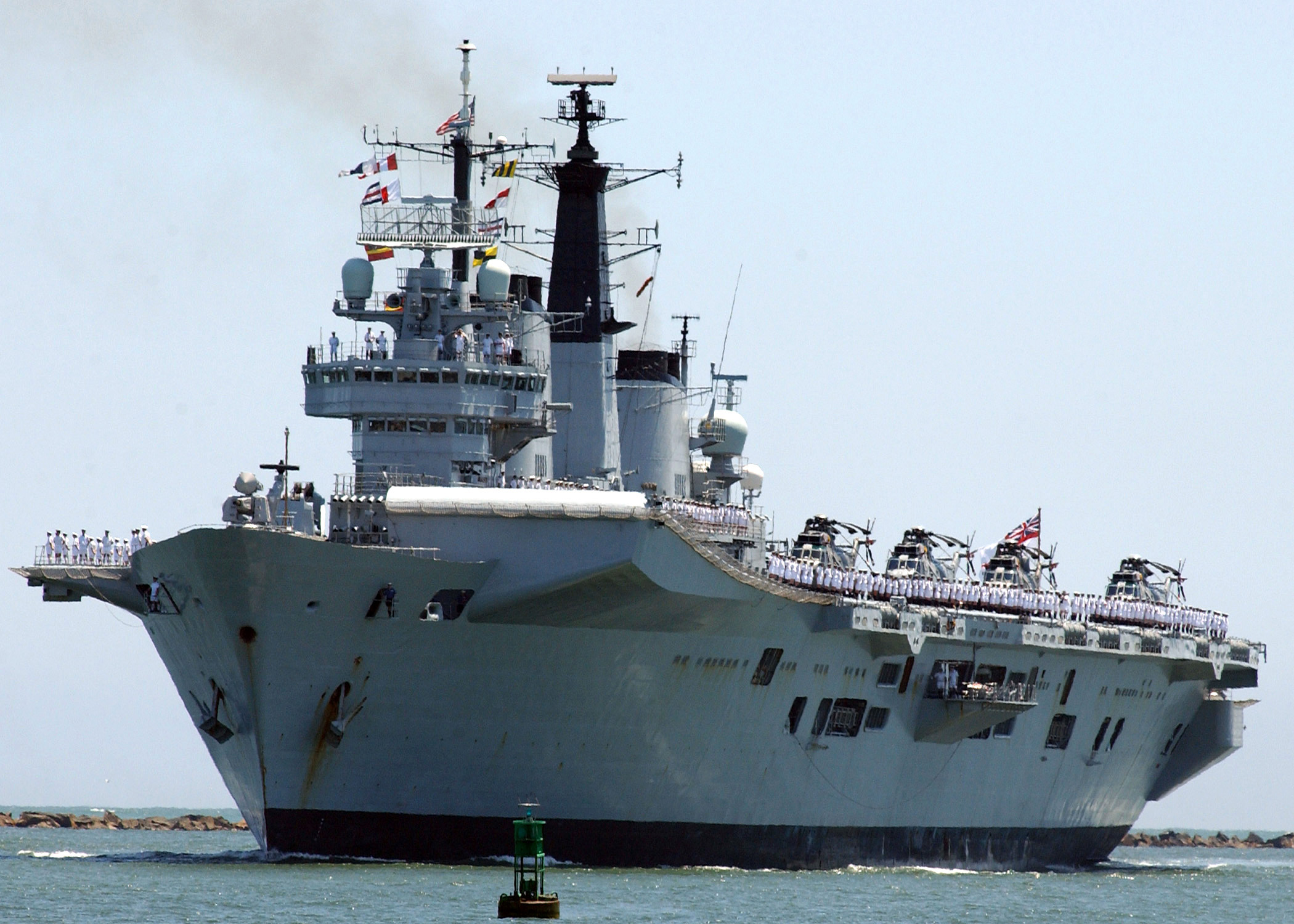 Her Majesty's Ship Invincible (R05) arrives in Jacksonville, Fla., for a five-day port visit before continuing on to Norfolk, Va., and New York city. Invincible, is the sixth ship of the Royal Navy to bear the name and the first of the Invincible-class of Anti-Submarine Warfare Carriers.